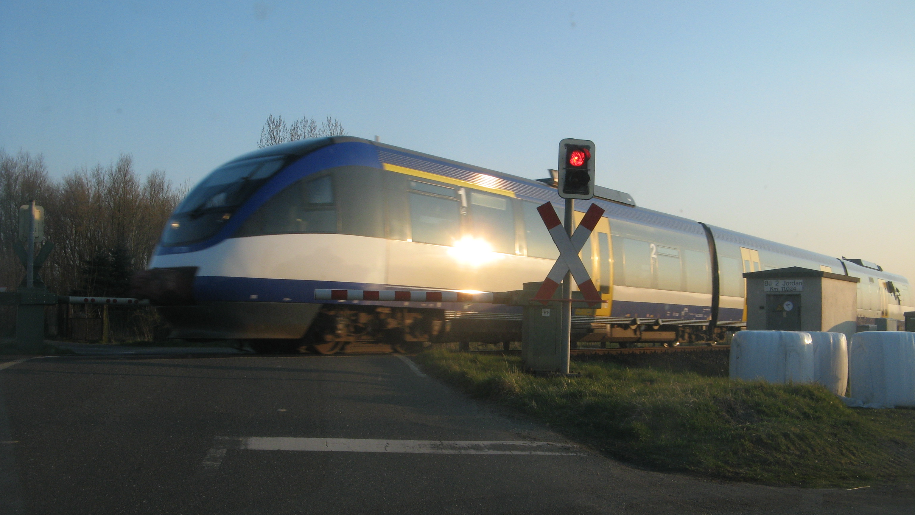 Regional train Bombardier TALENT of the Nord-Osteebahn-Bahn in Eiderstedt, Nordfriesland, Schleswig-Holstein, Germany.